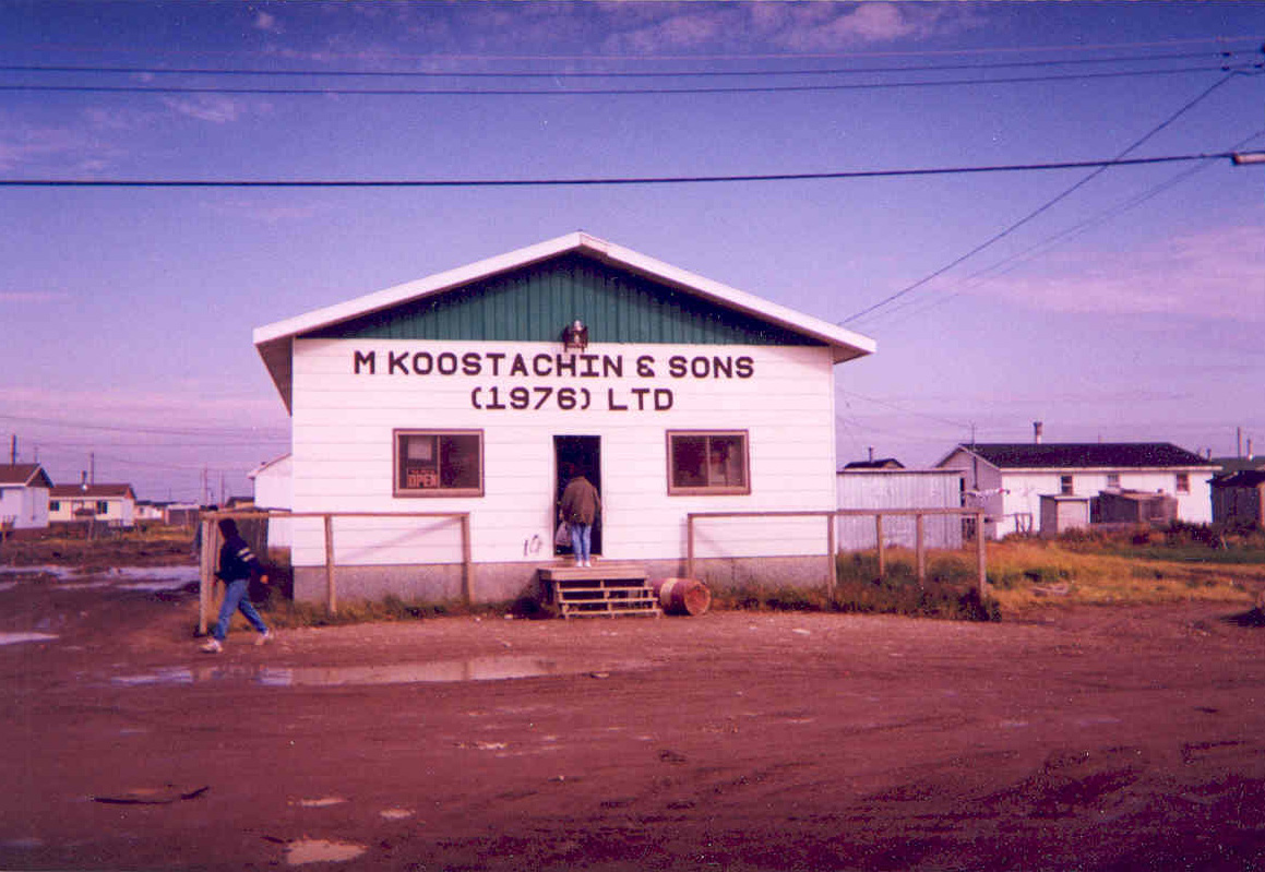 Koostachin Store in Attawapiskat, Ontario. Store founded by Gregory Koostachin.